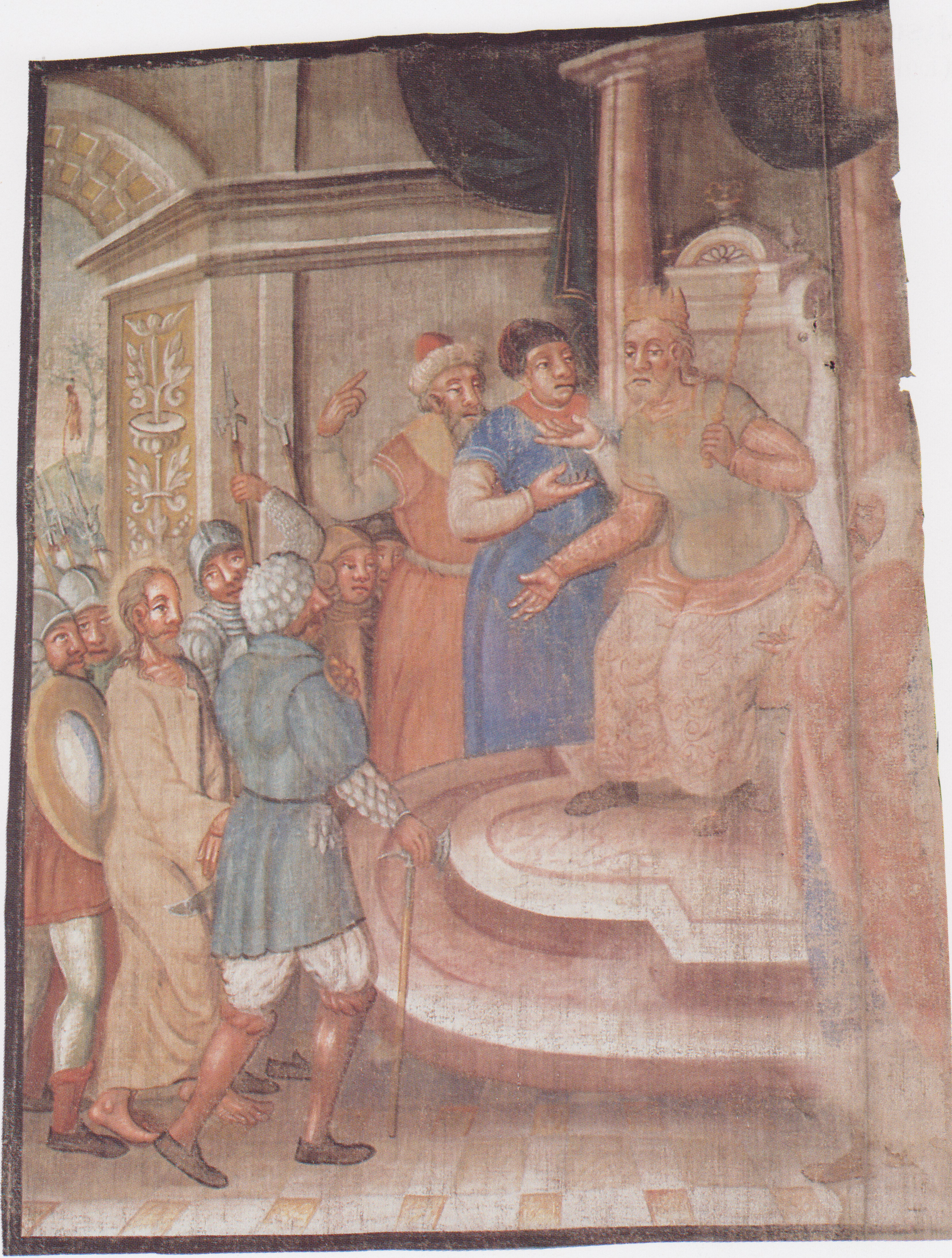 Lenten-canvas of Millstatt